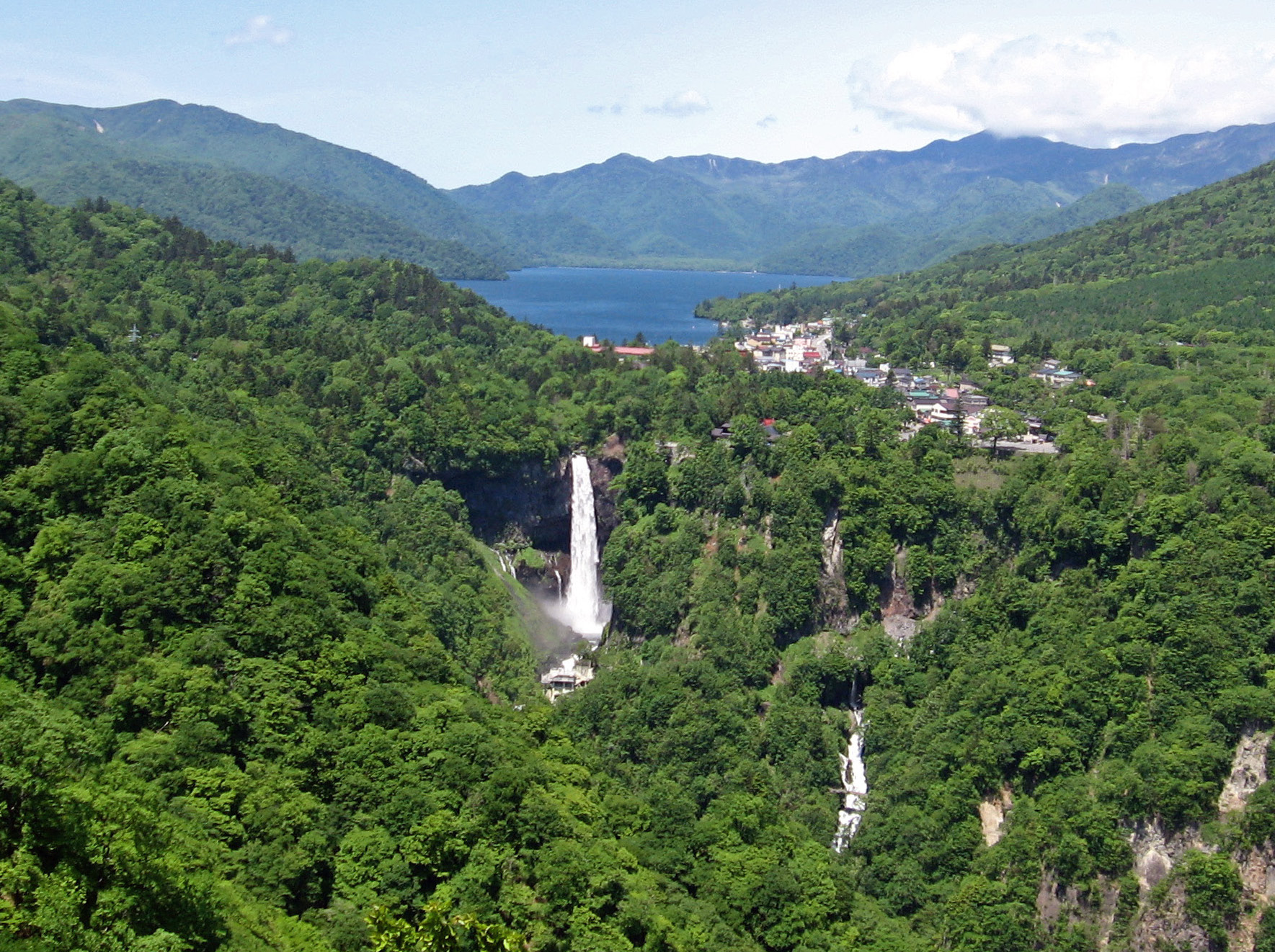 Lake Chuzenji and Kegon Waterfall,Nikko,Tochigi,Japan